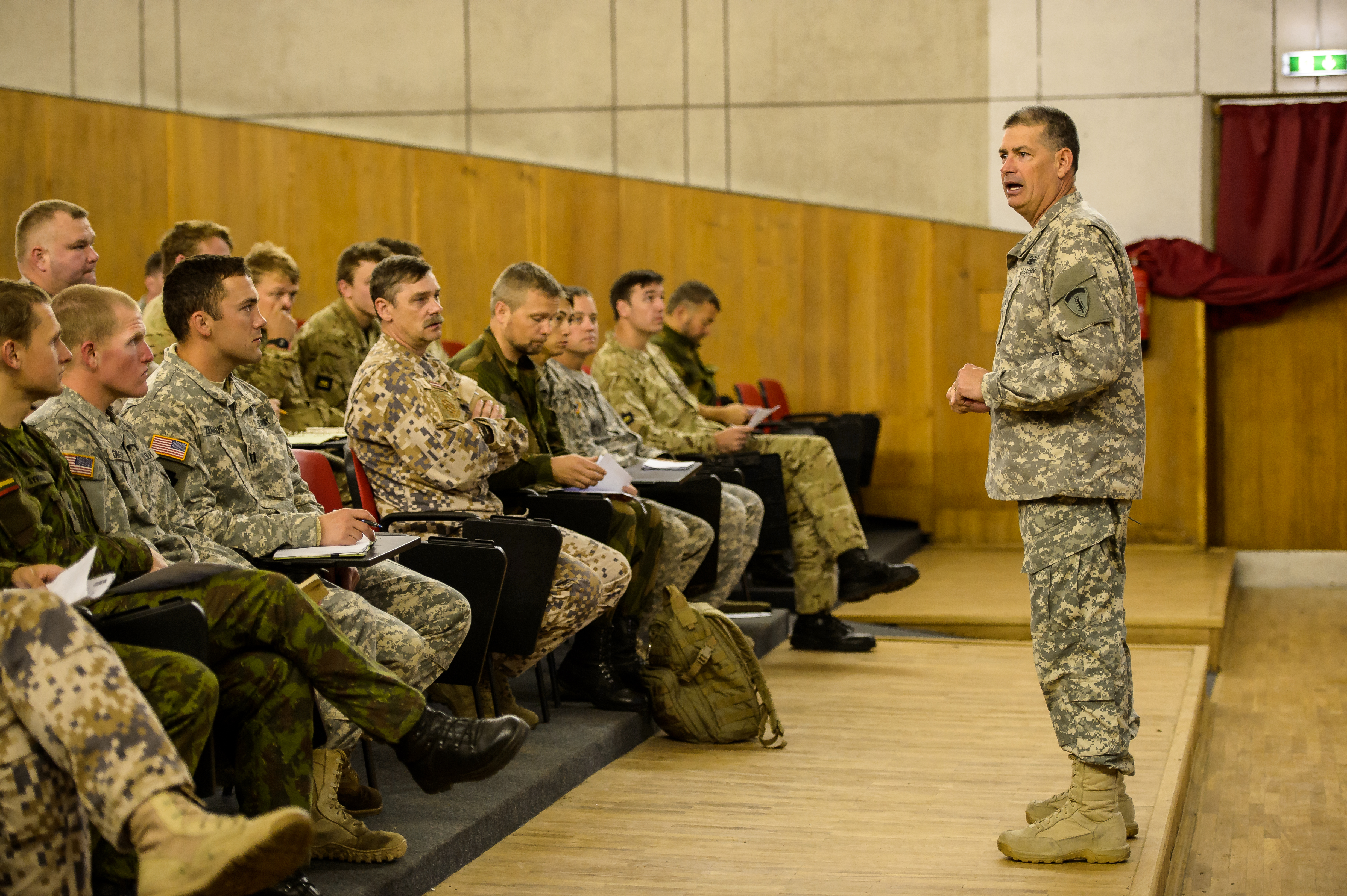 Maj. Gen. Mark McQueen, the Exercise Co-director of Saber Strike, gives his opening comments during the Saber Strike After Action Report (AAR) at Adazi Training Area on June 20, 2014. Saber Strike 2014 is a joint, multi-national military exercise scheduled for June 9- 20. The exercise spans multiple locations in Lithuania, Latvia and Estonia, and involves approximately 4,500 personnel from 10 countries. The exercise is designed to promote regional stability, strengthen international military partnerships, enhance multinational interoperability and prepare participants for worldwide contingency operations. (U.S. Army National Guard photo by: Staff Sgt. Brett Miller, 116 Public Affairs Detachment/ Released)